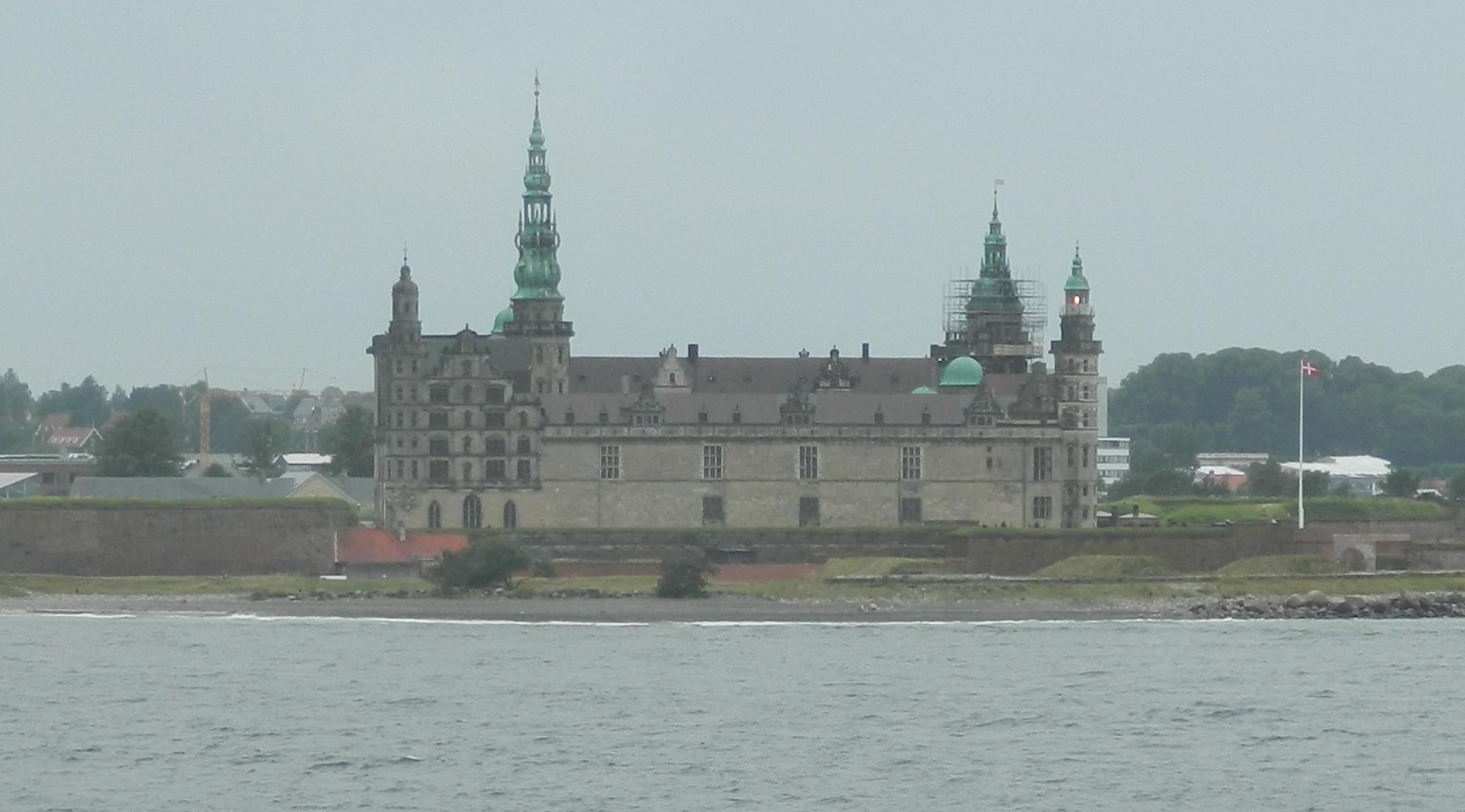 Shakepeare's "Hamlet" takes place at Kronborg Palace, a notable sign on the HH Ferry route